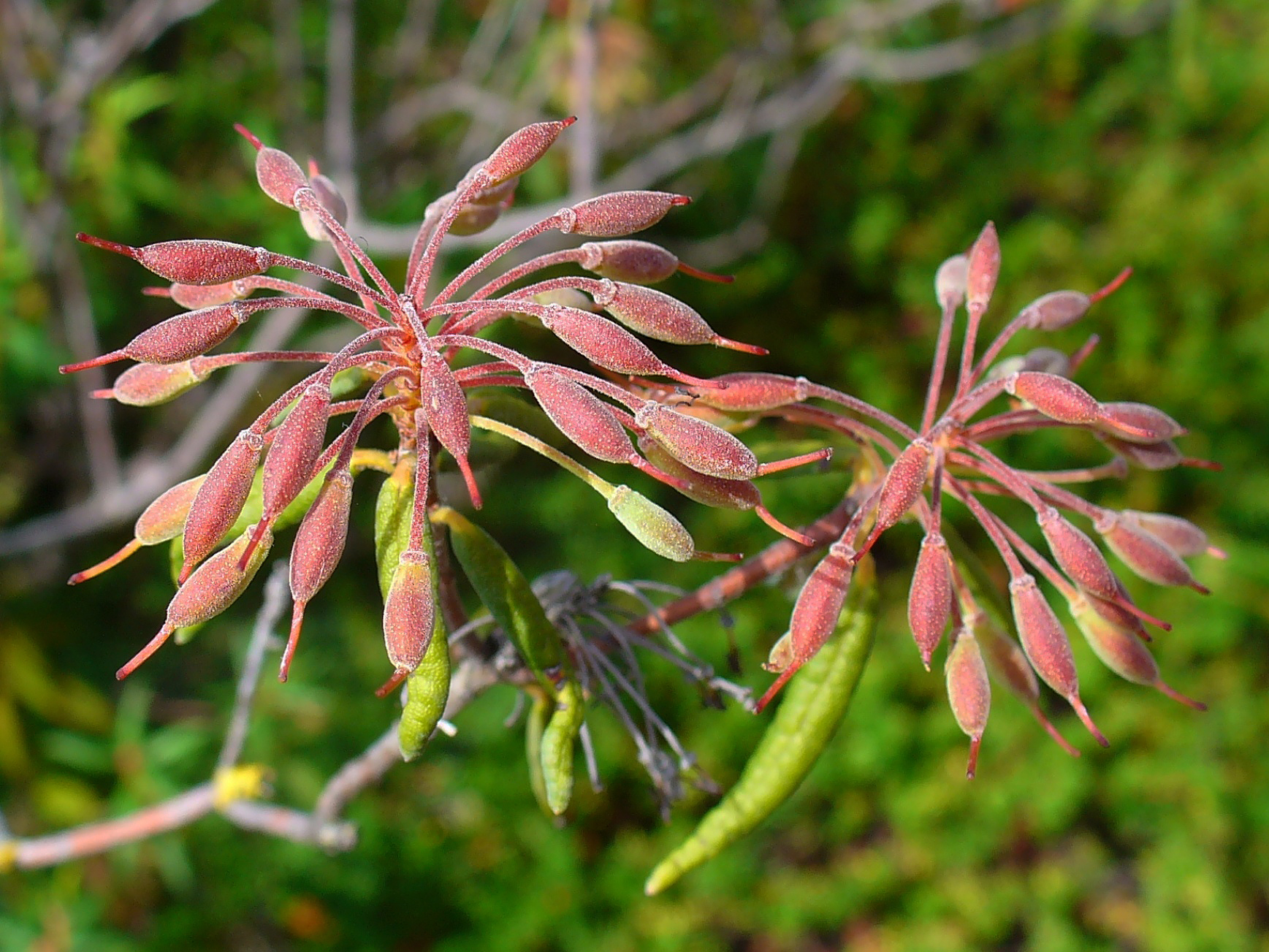 Rhododendron tomentosum, Ericaceae, Marsh Labrador Tea, Northern Labrador Tea, Wild Rosemary, infrutescence. Botanical Garden KIT, Karlsruhe, Germany.